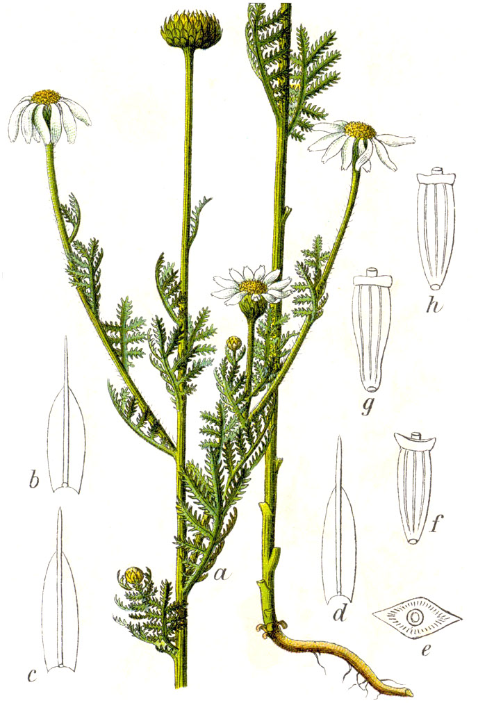 Cota austriaca, syn. Chamaemelum austriacum J.Presl & C.Presl Original Caption Oesterreichische Kamille, Chamaemelum austriacum